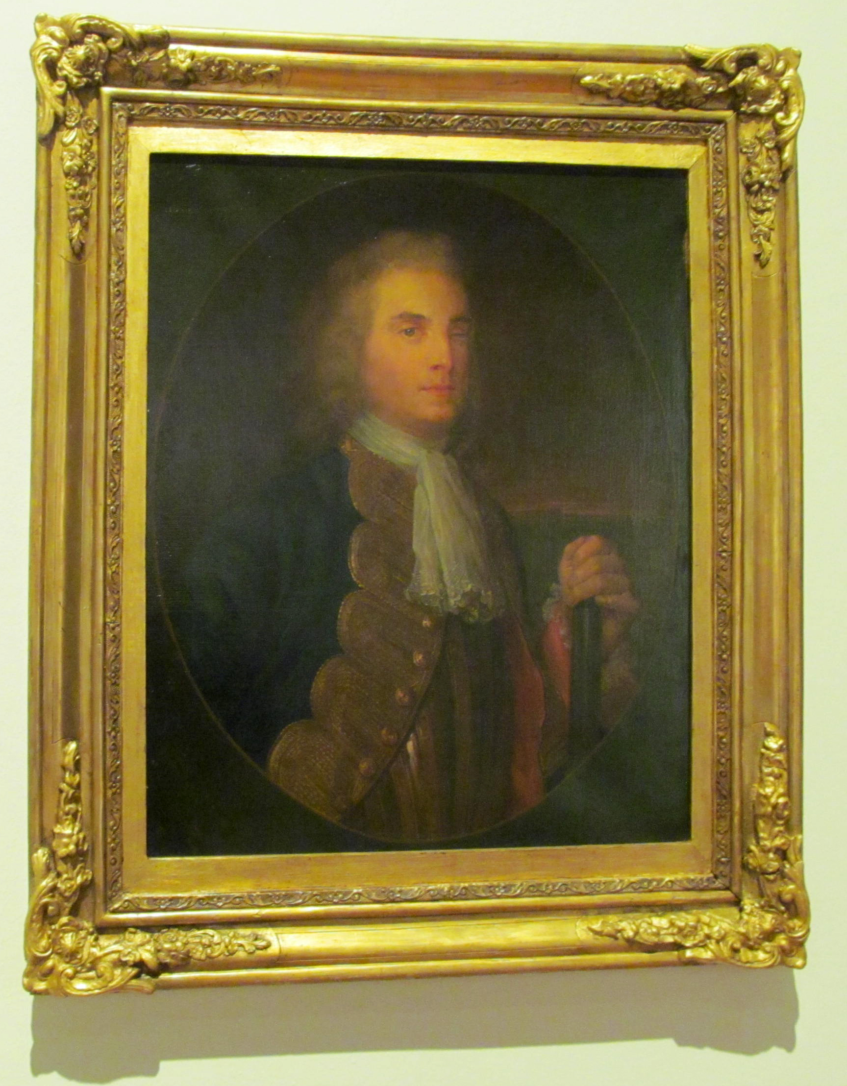 Spanish Vice Admiral Blas de Lezo. Museo Naval de Madrid. Pintead by anonymous author.